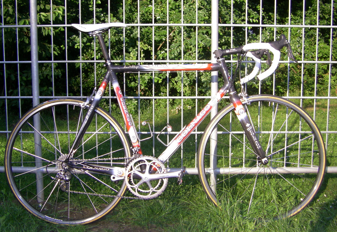 Colnago C40 Road Racing Bicycle with LX11 decals from the year 2001